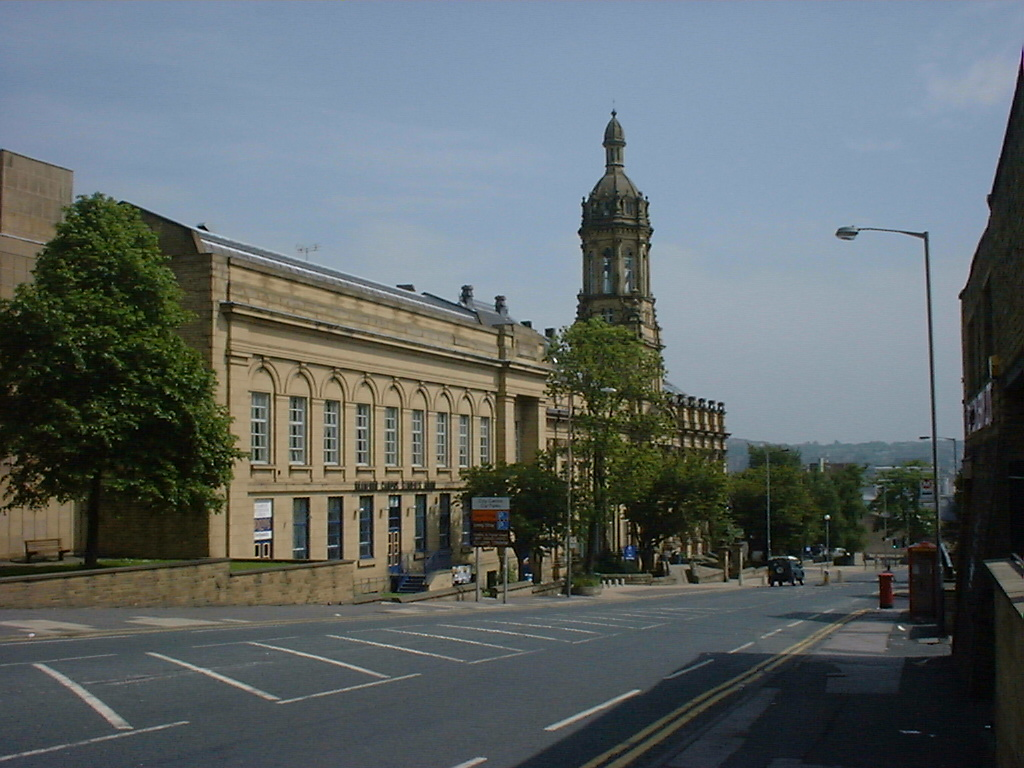 Bradford College old building, viewed from Great Horton Road.